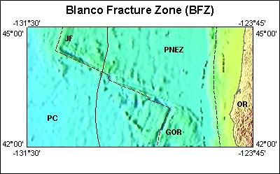 U.S. Geological Survey: USGS CMG InfoBank Atlas: Blanco Fracture Zone regions at